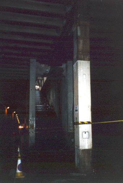 Interior of Kingsway tramway subway, showing Holborn tramway station, taken by Nick Cooper 29 April 2004.